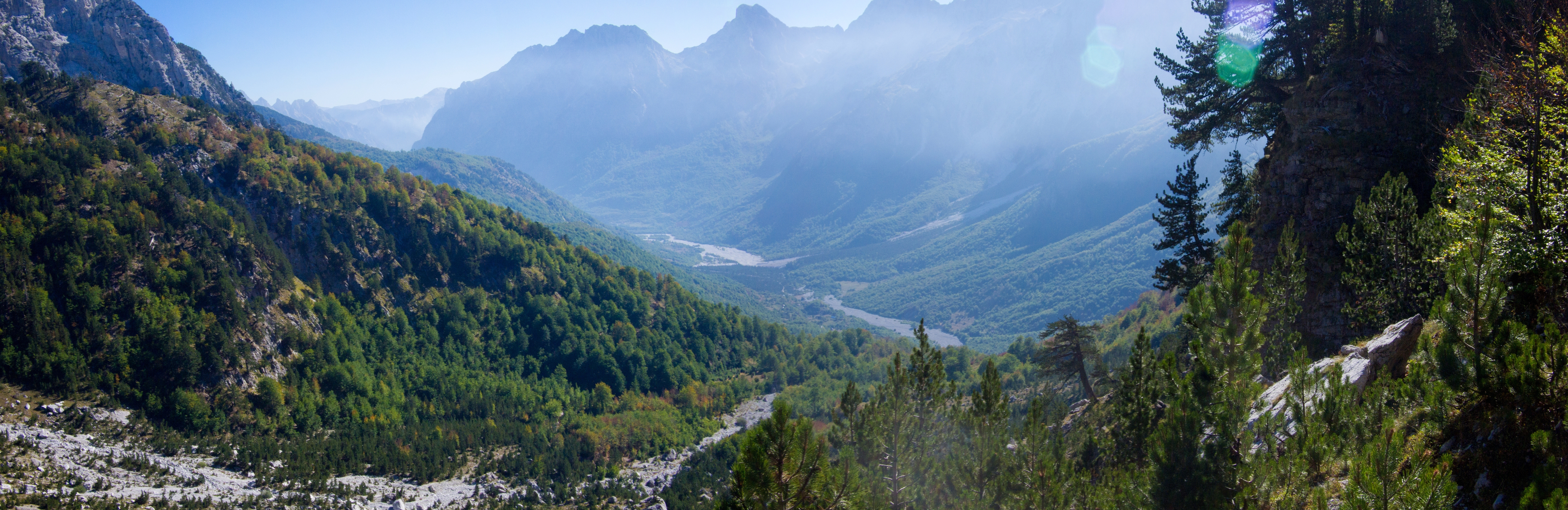 Early morning haze in Valbona National Park, Valbona, Albania